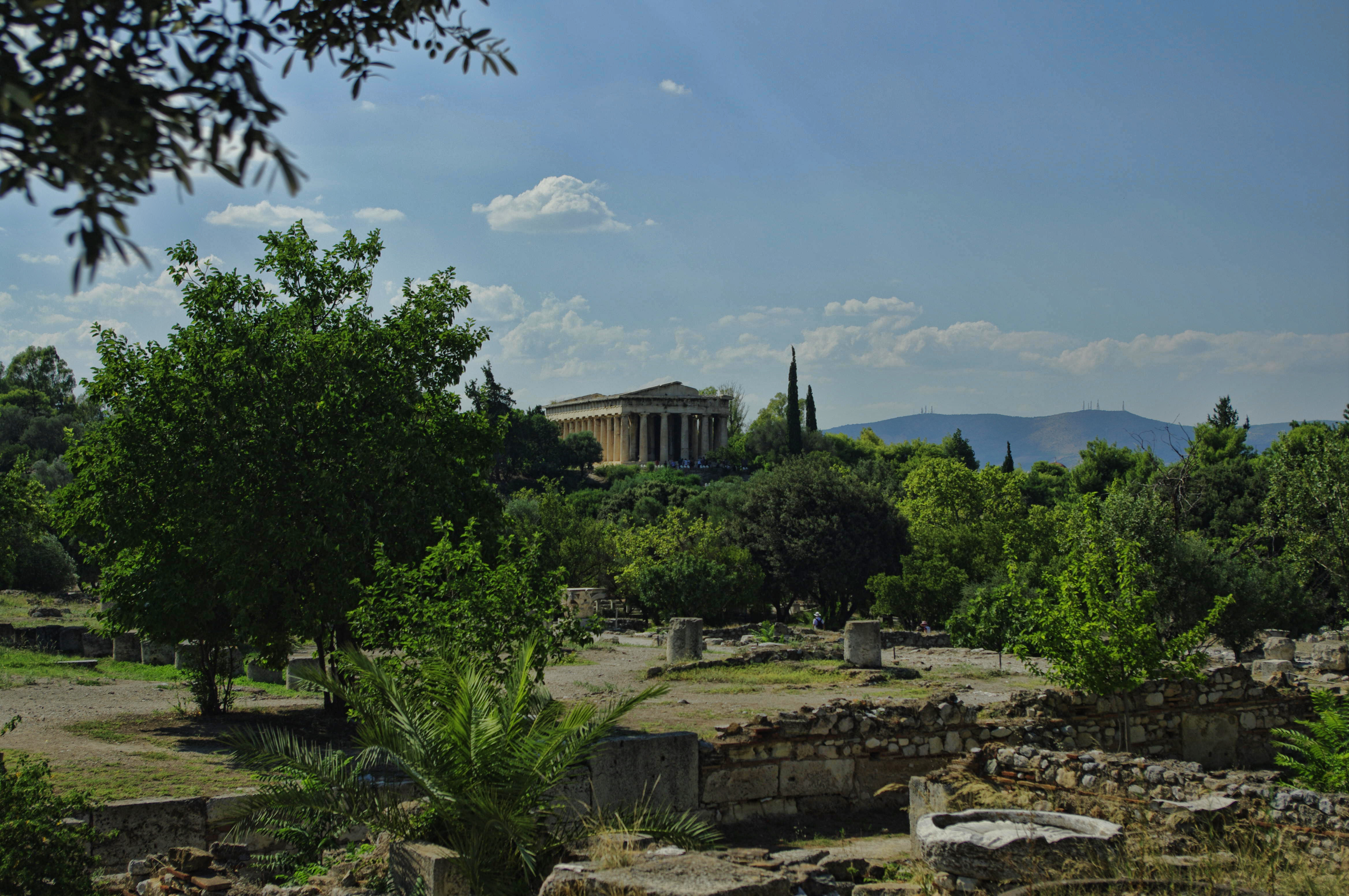 Temple of Hephaestus, Theseion «Ναός Ηφαίστου»